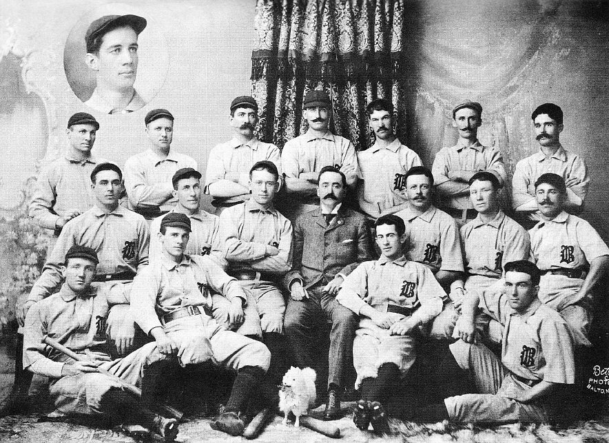 1896 Baltimore Orioles official team photoTop row, left to right: Joe Quinn, Sadie McMahon, Duke Esper, George Hemming, Frank Bowerman, Boileryard Clarke, Jim DonnellyMiddle row, left to right: Steve Brodie, Bill Hoffer, Joe Kelley, Ned Hanlon, Wilbert Robinson, Hughie Jennings, Heinie ReitzBottom row, left to right: Jack Doyle, John McGraw, Willie Keeler, Arlie Pond